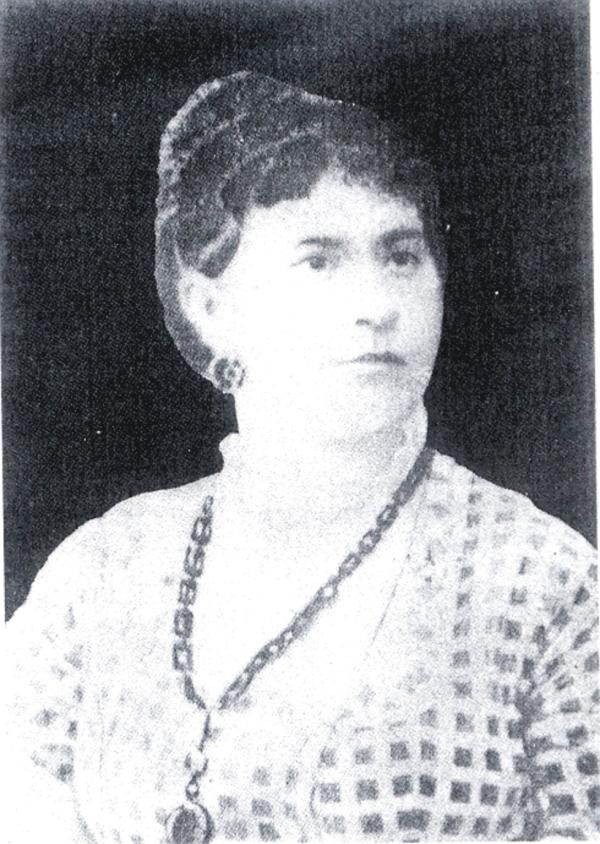 Famous Spanish flamenco singer from Seville.